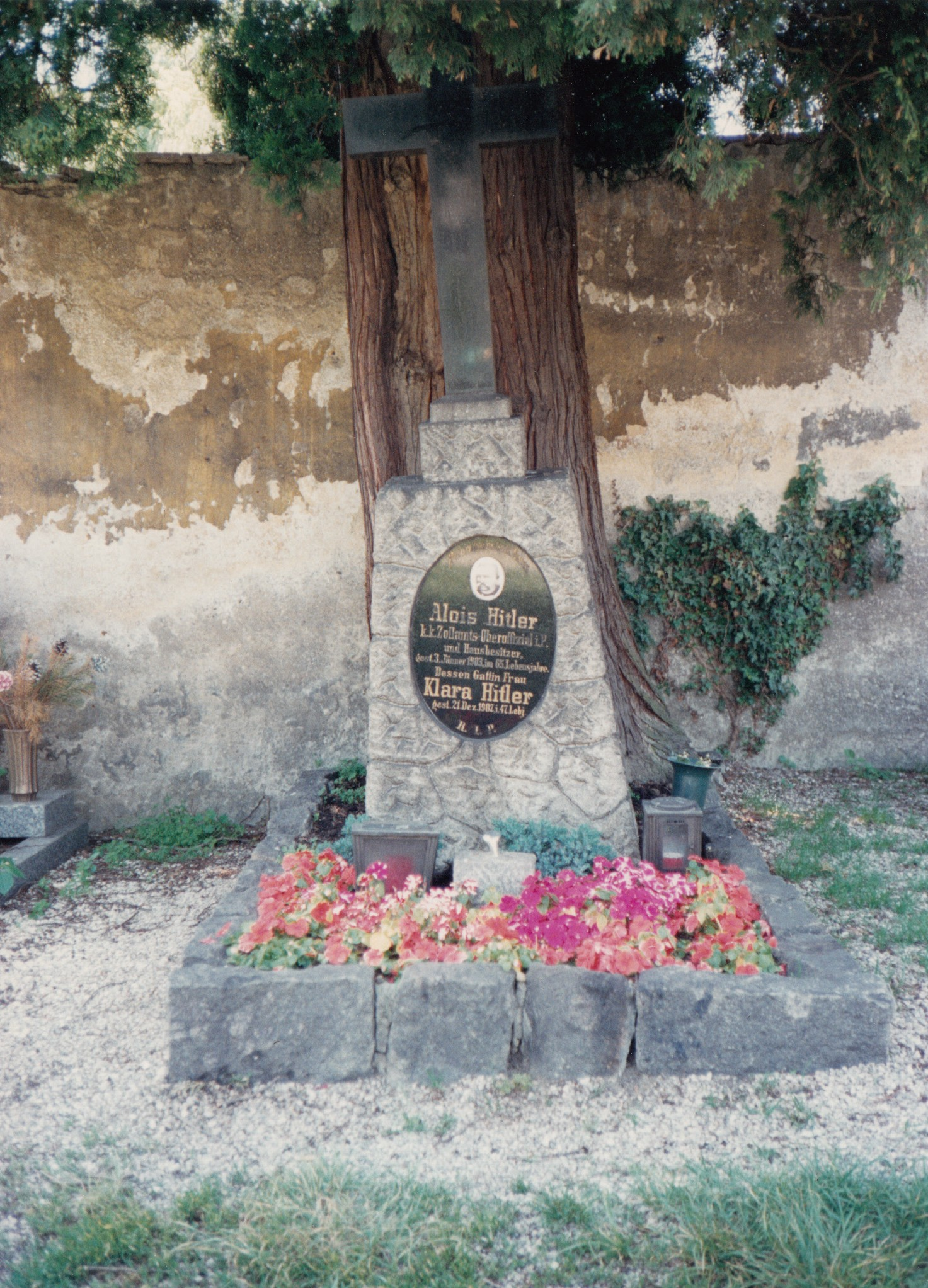 The graves of Alois and Klara Hitler in the cemetery at Leonding near Linz (photographed in the mid-1980s)